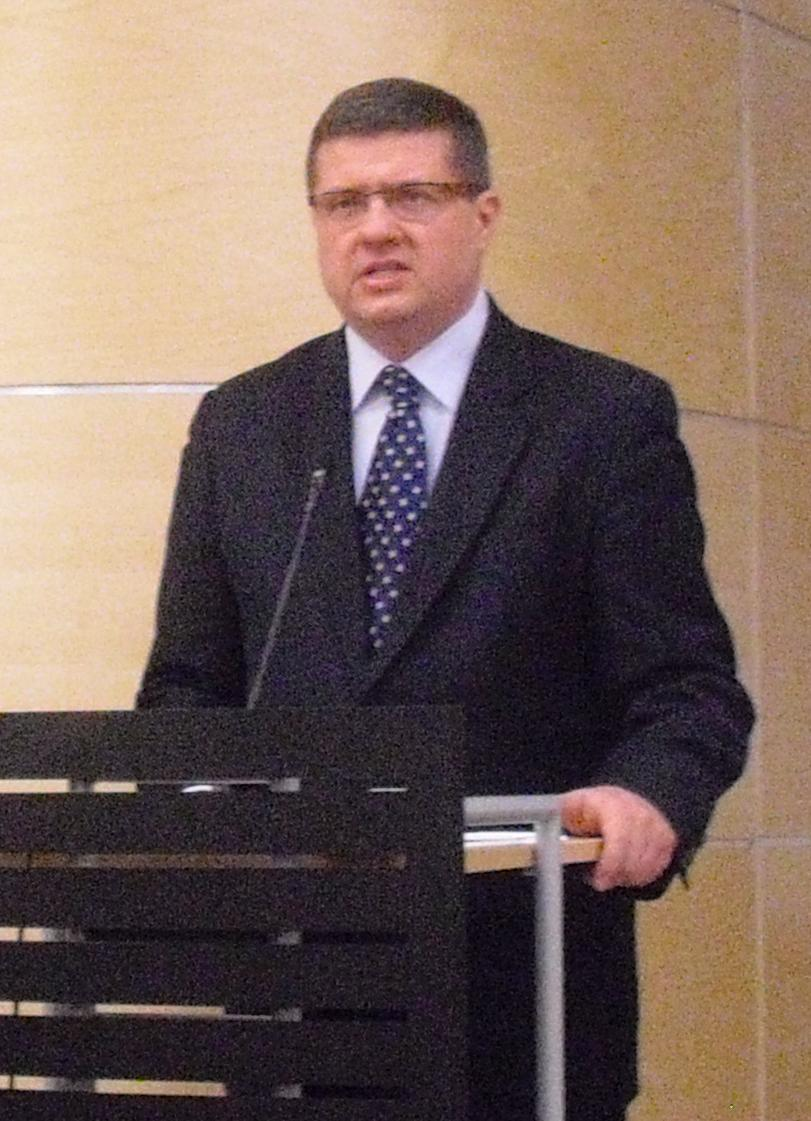 Former President of the National Bank of Poland, Sławomir Skrzypek.